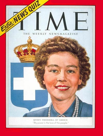 Cover of the Time magazine with Queen Frederika of Greece, Oct. 26, 1953.